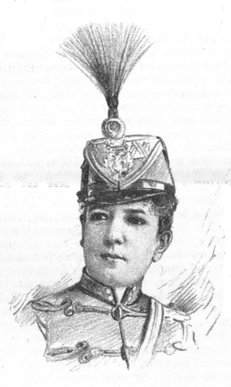 Portrait of Gisela Graselli-Magnus (1864-??), Austrian actress.